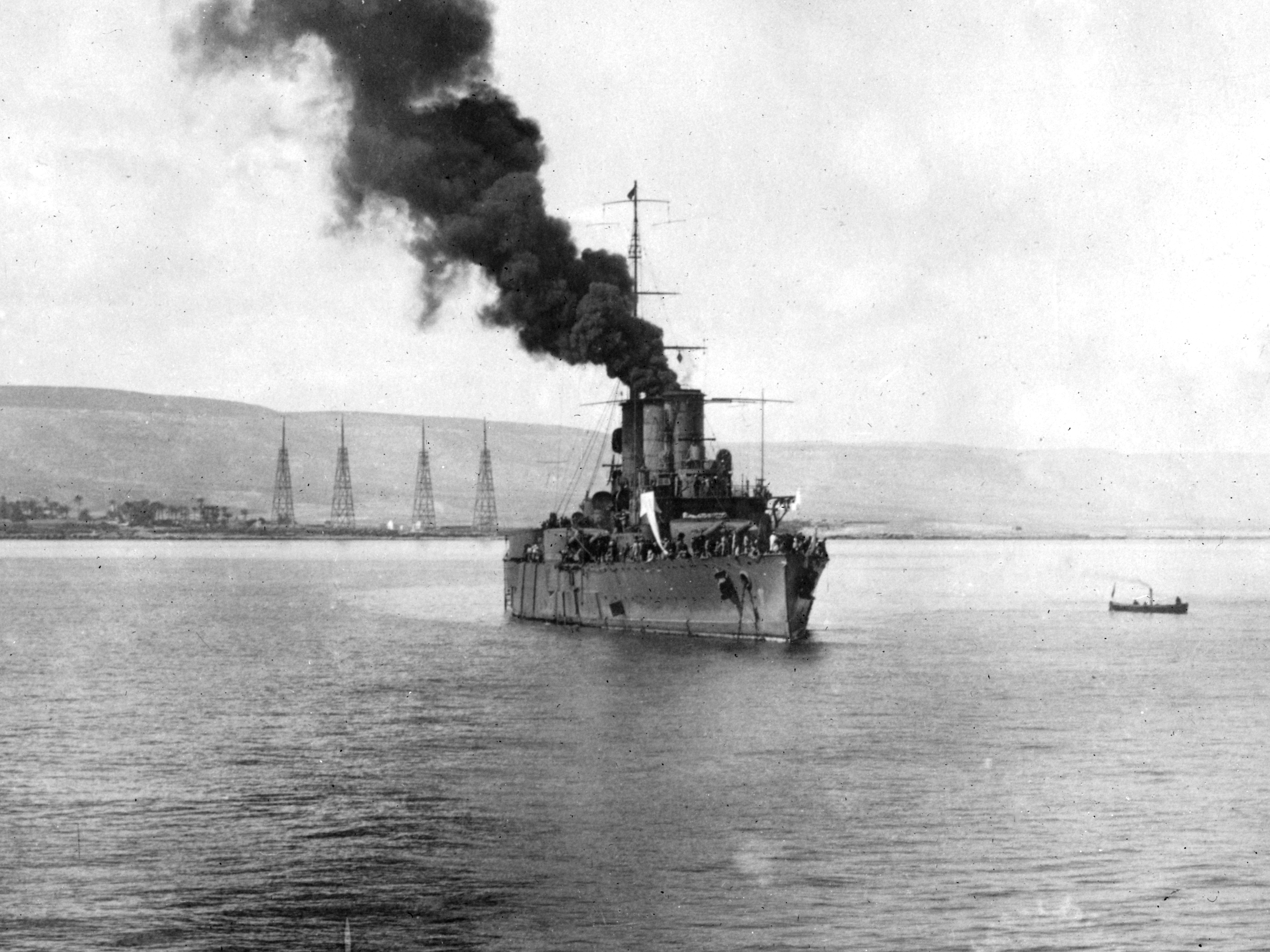 The Italian cruiser Pisa at Derna, Libya.